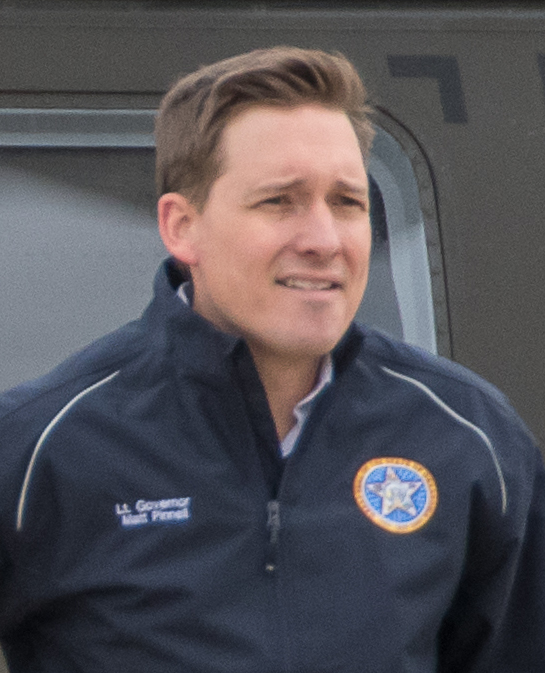 Oklahoma Gov. Kevin Stitt, Oklahoma Lt. Gov. Matt Pinnell and Mayor of Tulsa G.T. Bynum, view arial flood damage in northeast Oklahoma May 22, 2019.(U.S. Air National Guard photo by Master Sgt. C.T. Michael)